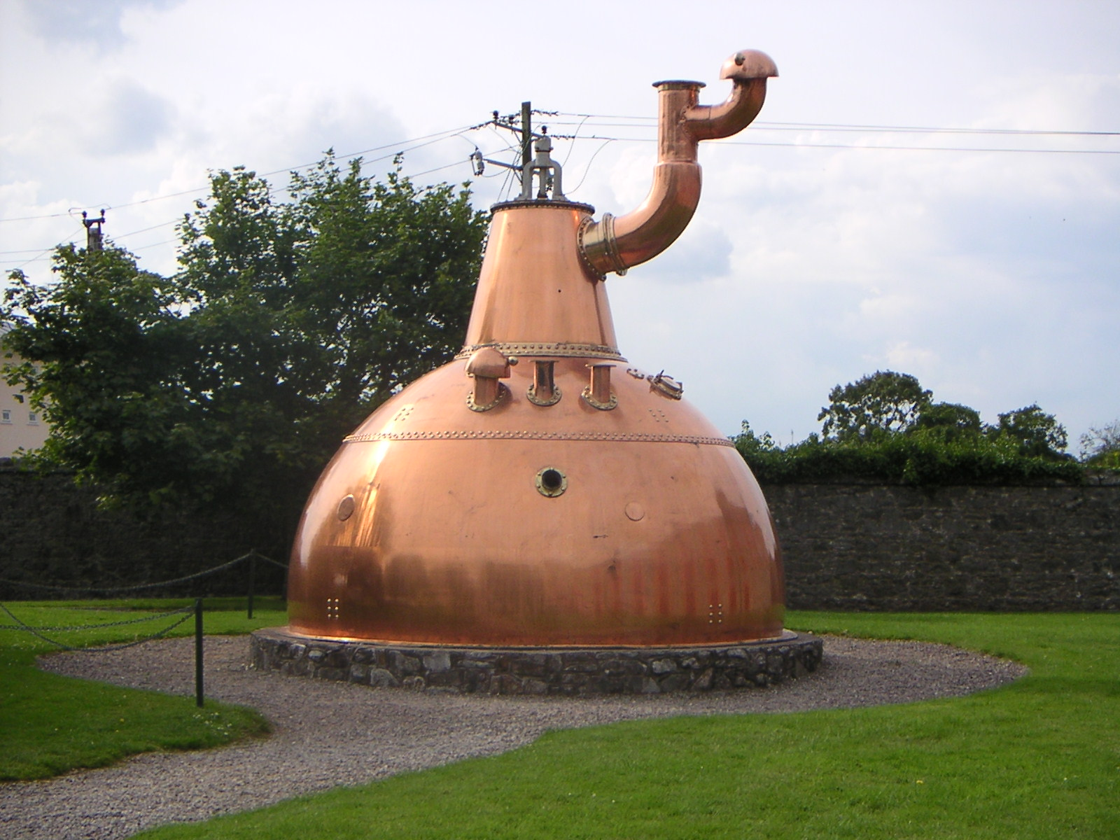 Historical whiskey pot still at the Midleton distillery complex of Jameson in Cork